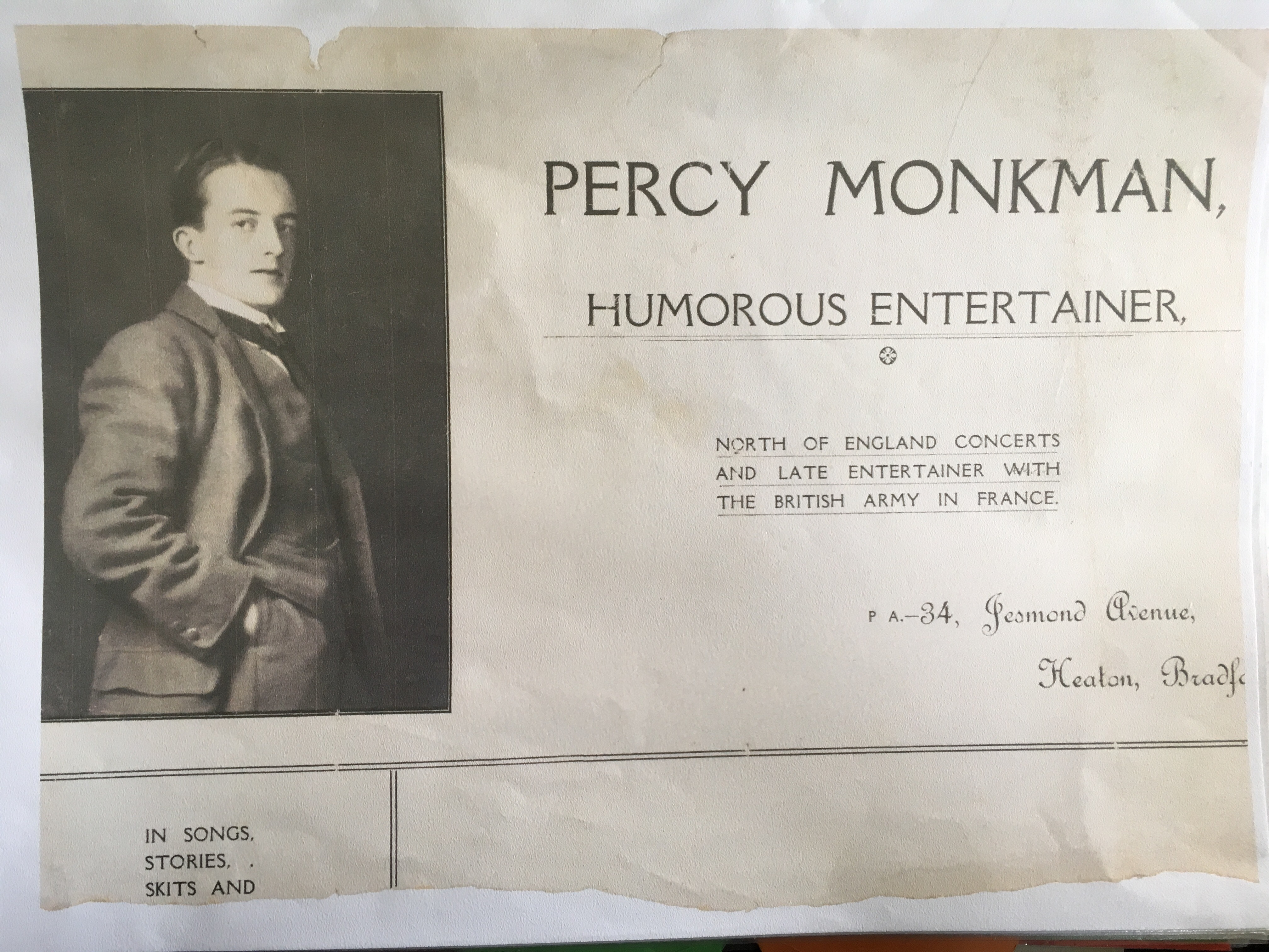 Percy Monkman business letterhead